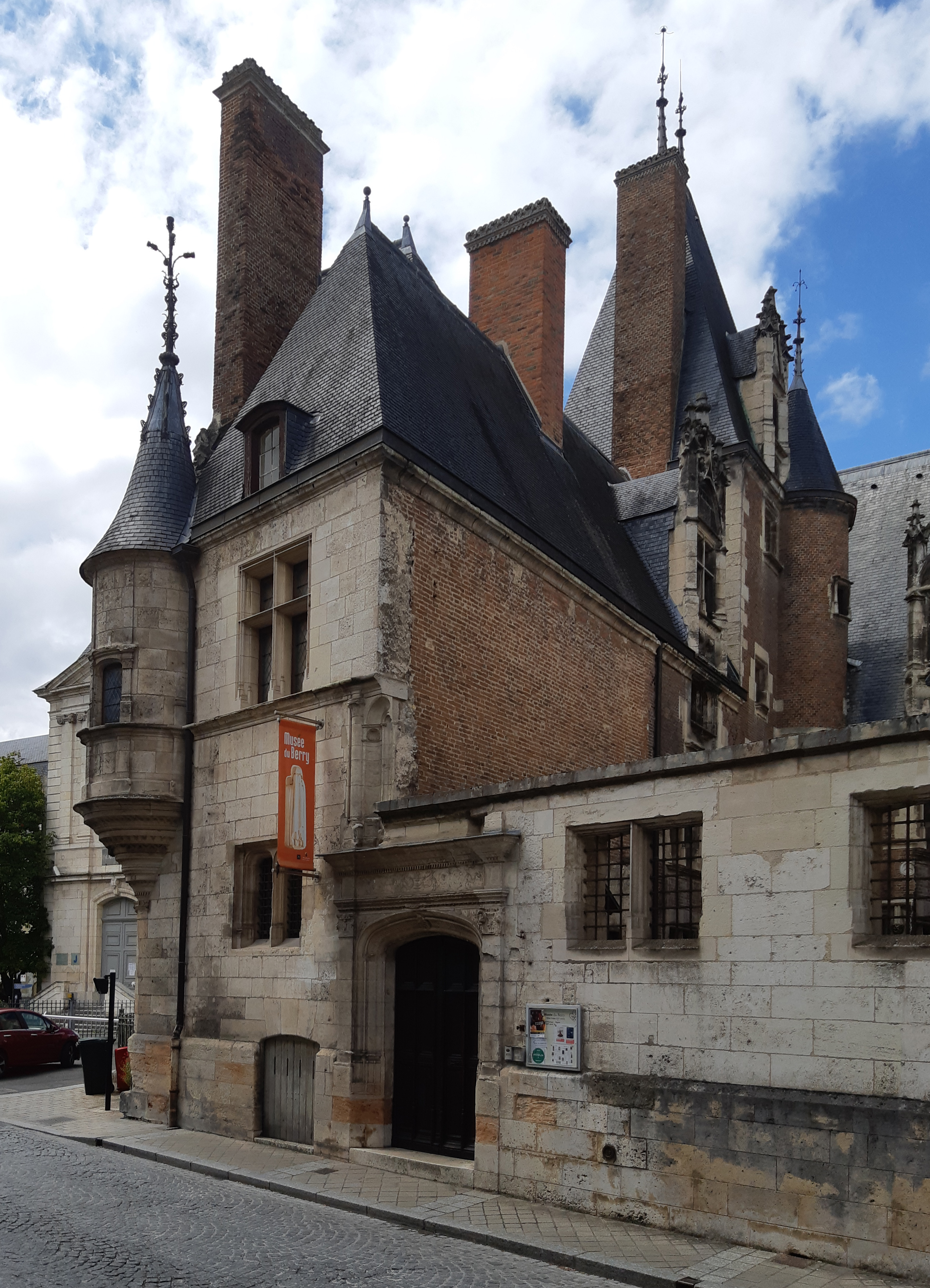 Hôtel Cujas in Bourges, (France)